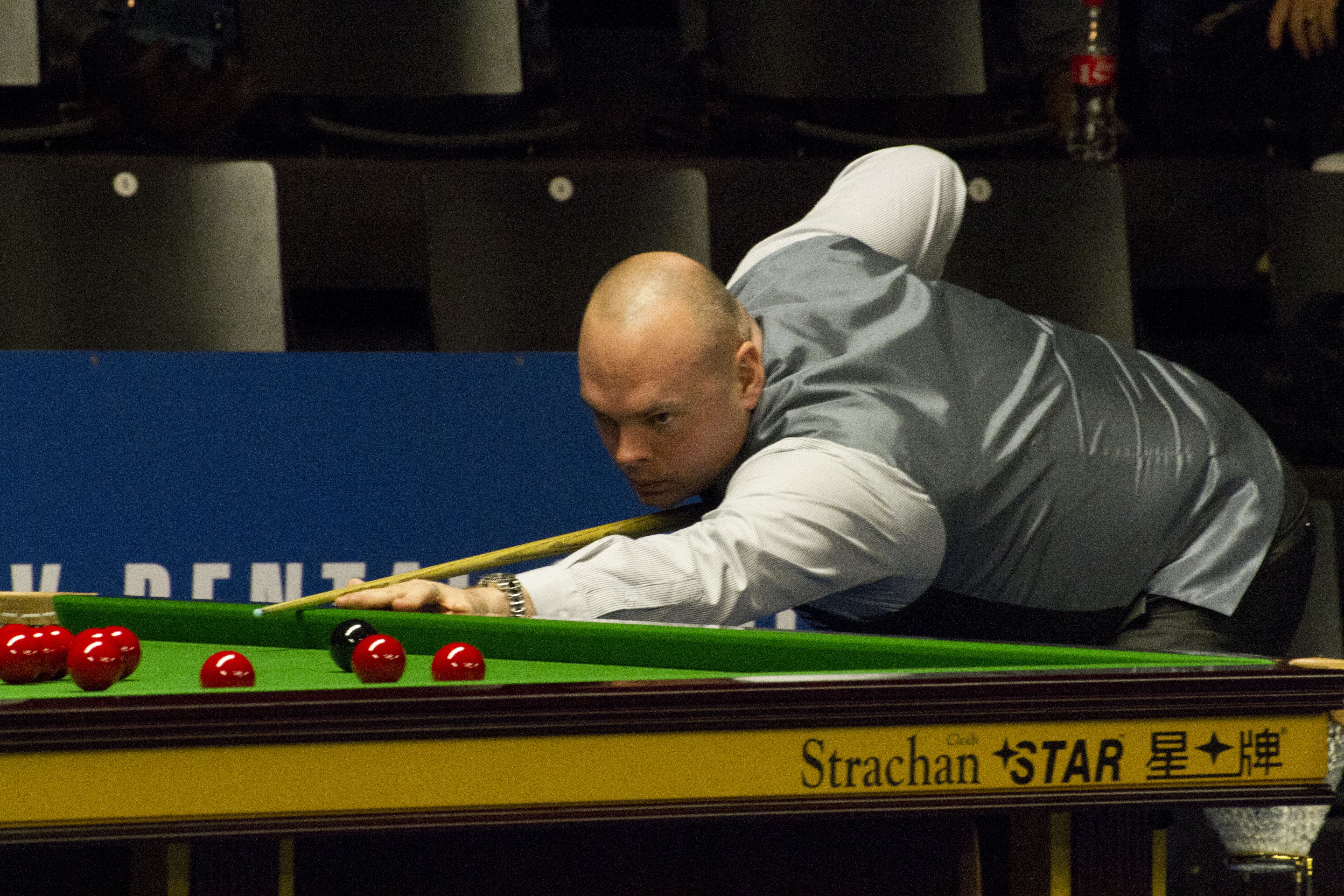 Round of last 32 Ding Junhui vs. Ryan Day (TV-table) Michael Georgiou vs. Alfie Burden Mathew Selt vs. Stuart Bingham